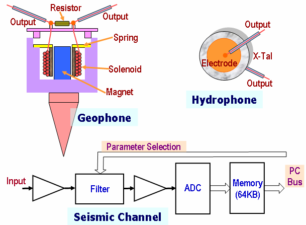 Seismic hardwares: phone, hydrophone and schematic recording channel of seismograph